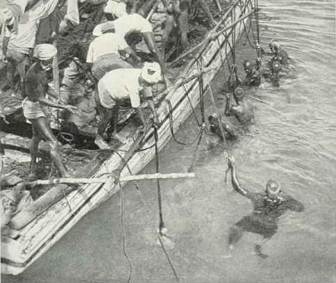 A pearling crew at work.